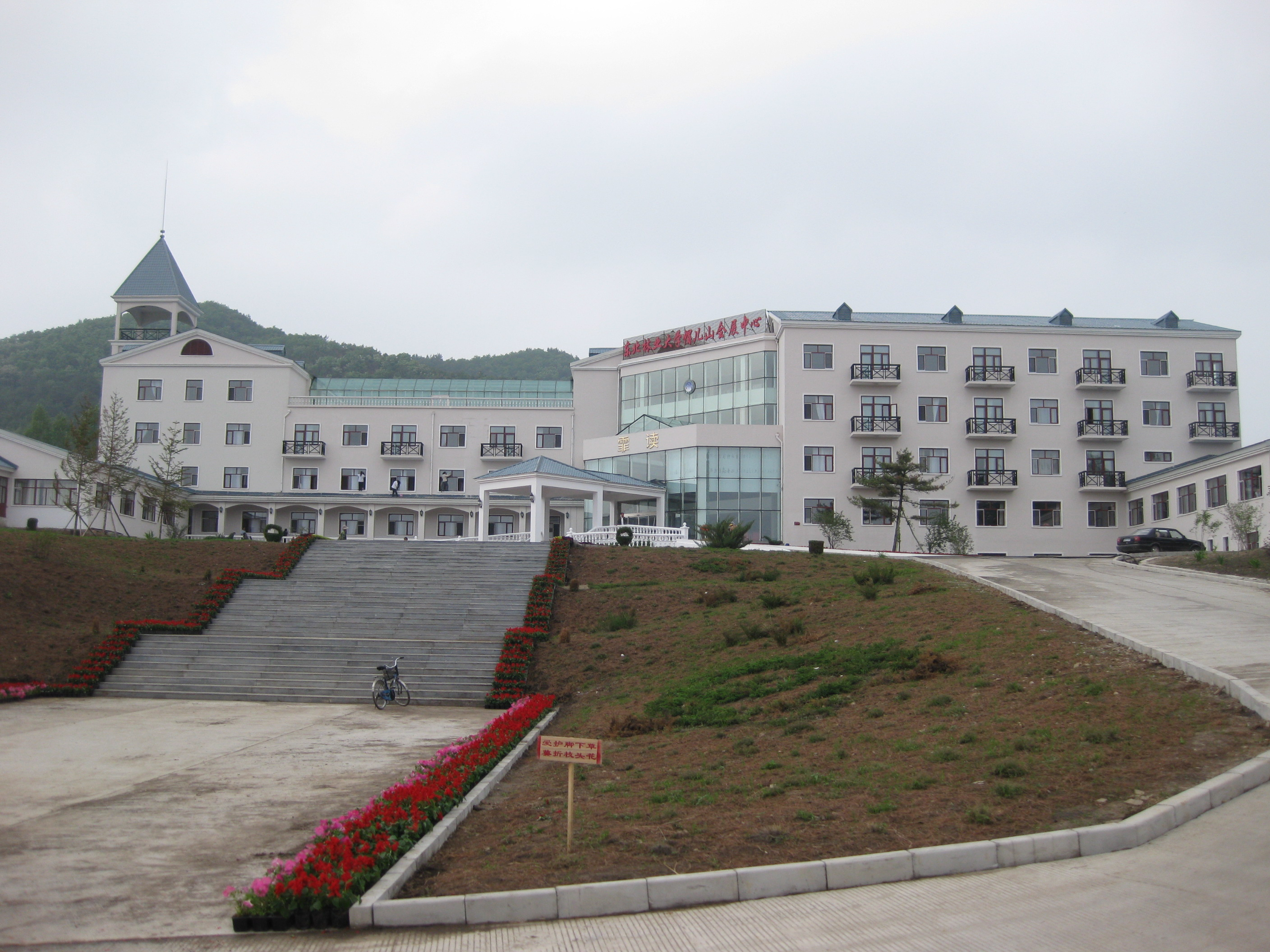 Maoershan Feidu Building